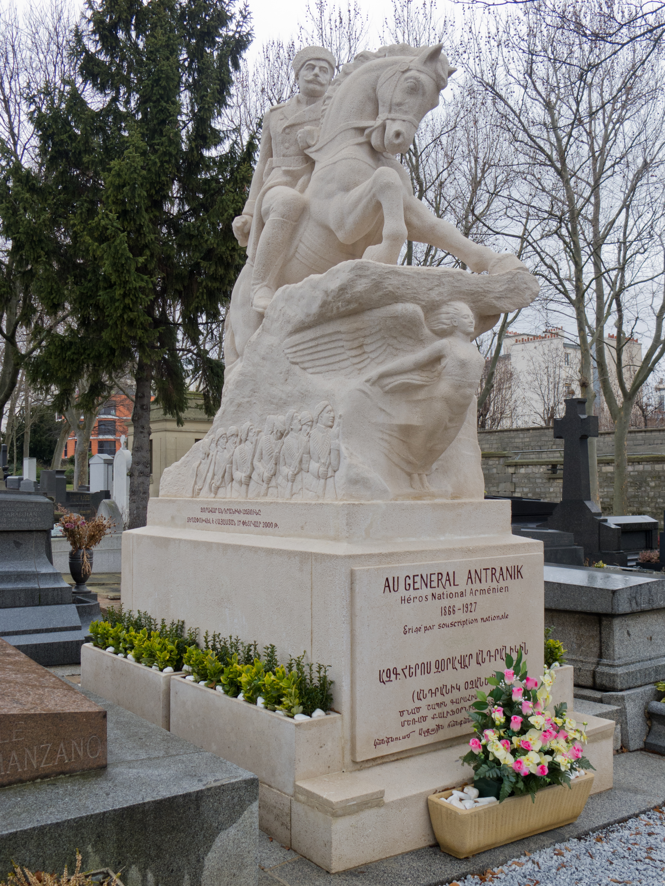 Cemetery of Père-Lachaise, Paris, France.